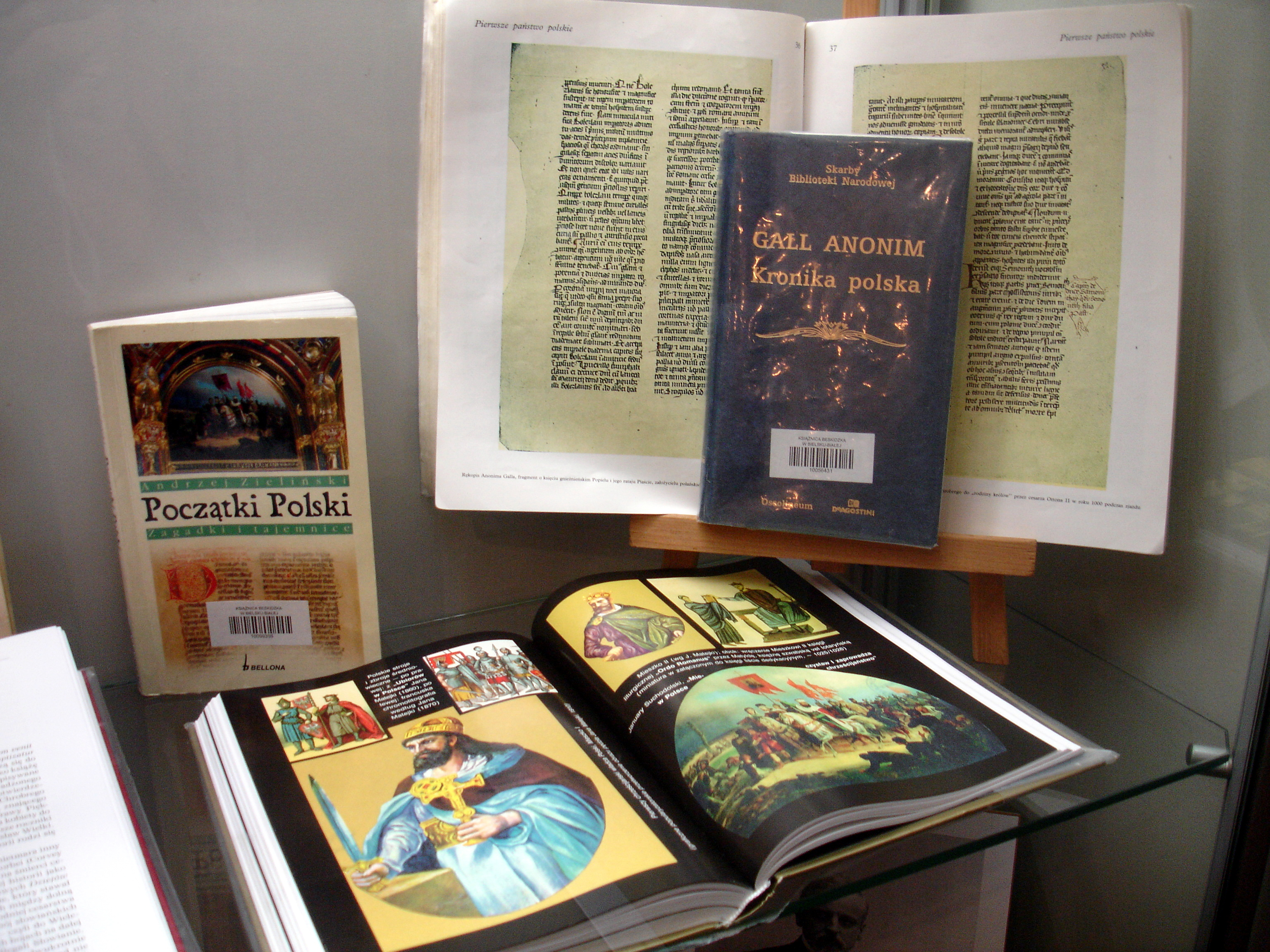 Christianisierung Polens, Gedenkausstellung in Bielsko-Biała